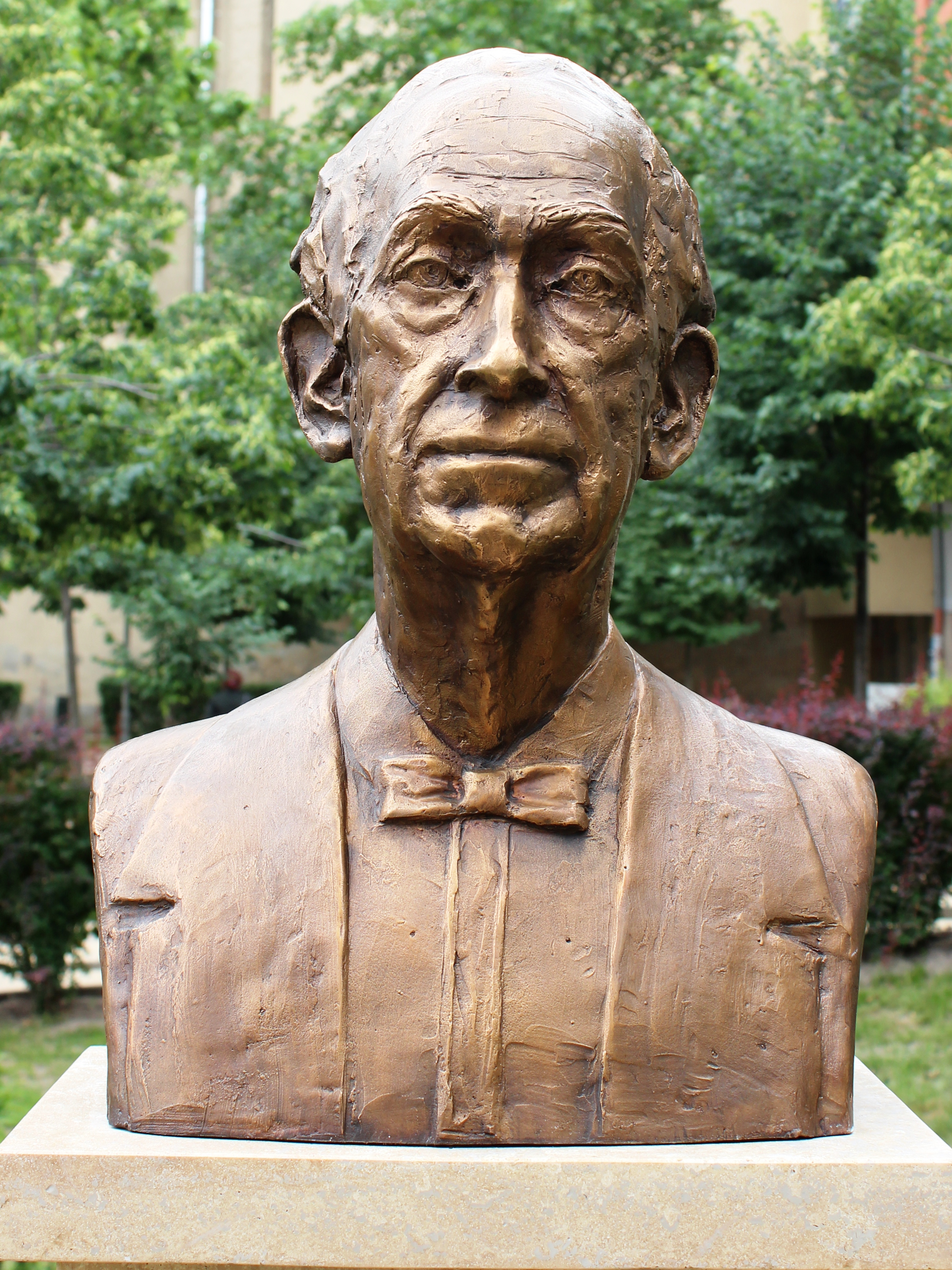 János Szentágothai bust in Budapest District IX, Szentágothai János Square. Created by Éva Freund.